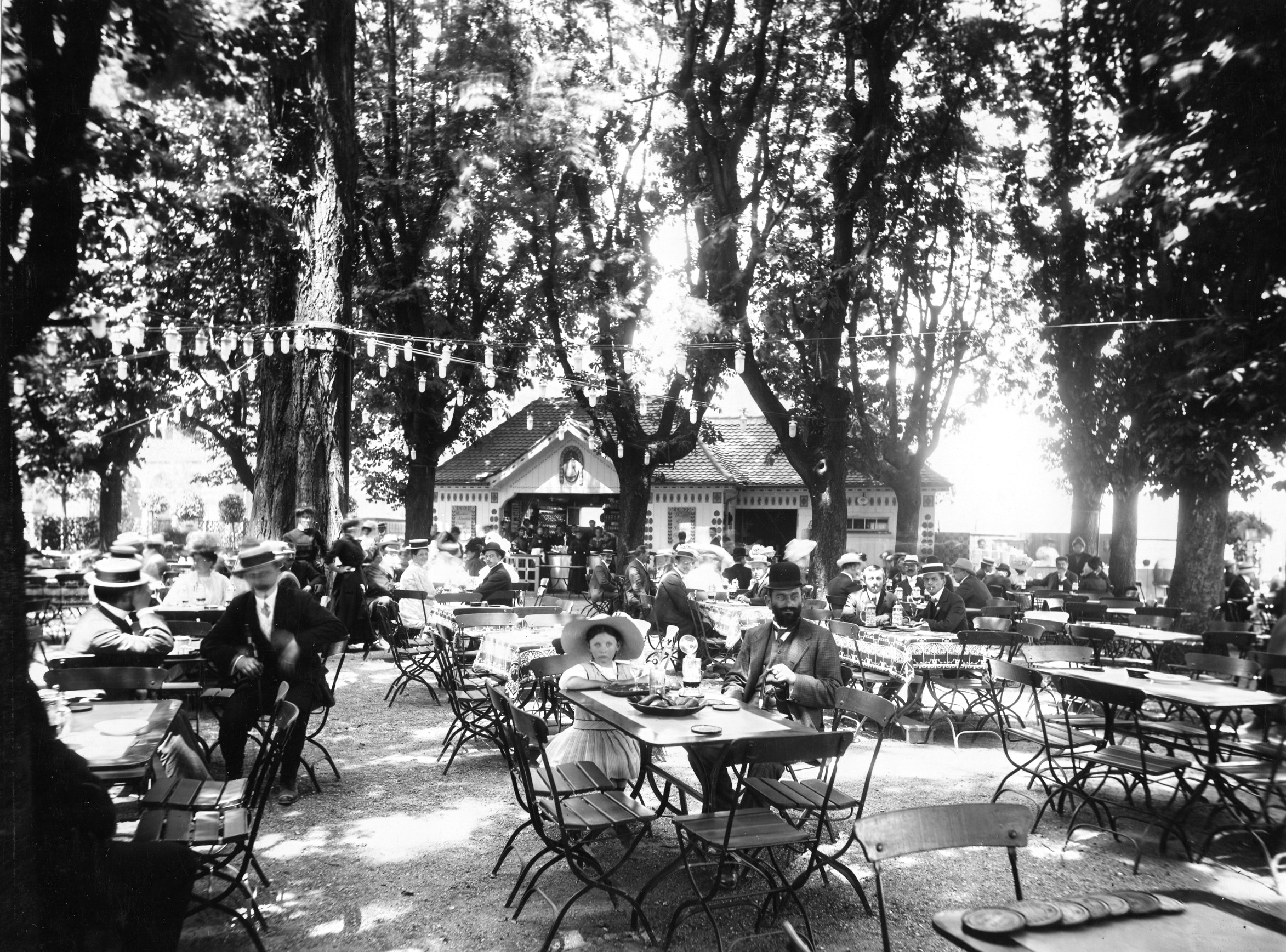 Zürich : Beer garden on the "Bauschänzli", 1908